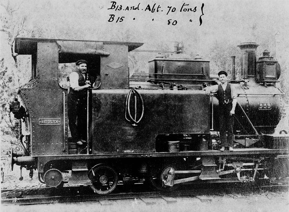 Abt rack locomotive at Mount Morgan, Queensland, ca. 1890-1900 Mount Morgan track locomotive no. 339 built by Dubs. The B13 class locomotive entered into service in August 1898 and was taken out of service in September, 1916. (Description supplied with photograph.) Two railway workers pose on the locomotive. This ABT rack locomotive had cogs which engage a toothed rack between the rails enabling it to climb the steep incline. Handwritten on photograph: B13 and Abt 70 tons B15 and Abt 80 tons